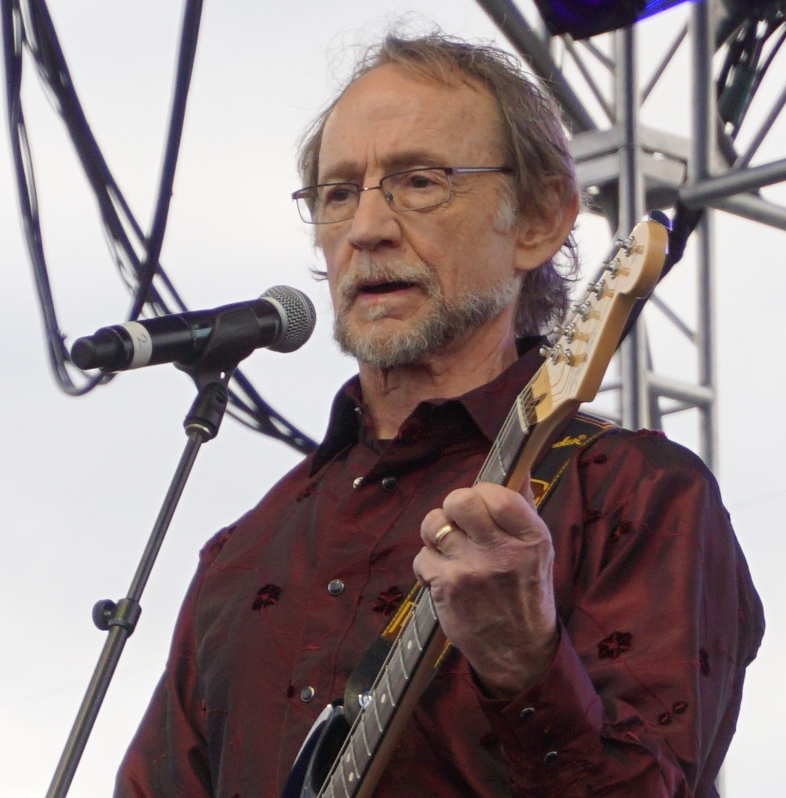 Peter Tork at Family Gras, Metairie, Louisiana, January 2016.